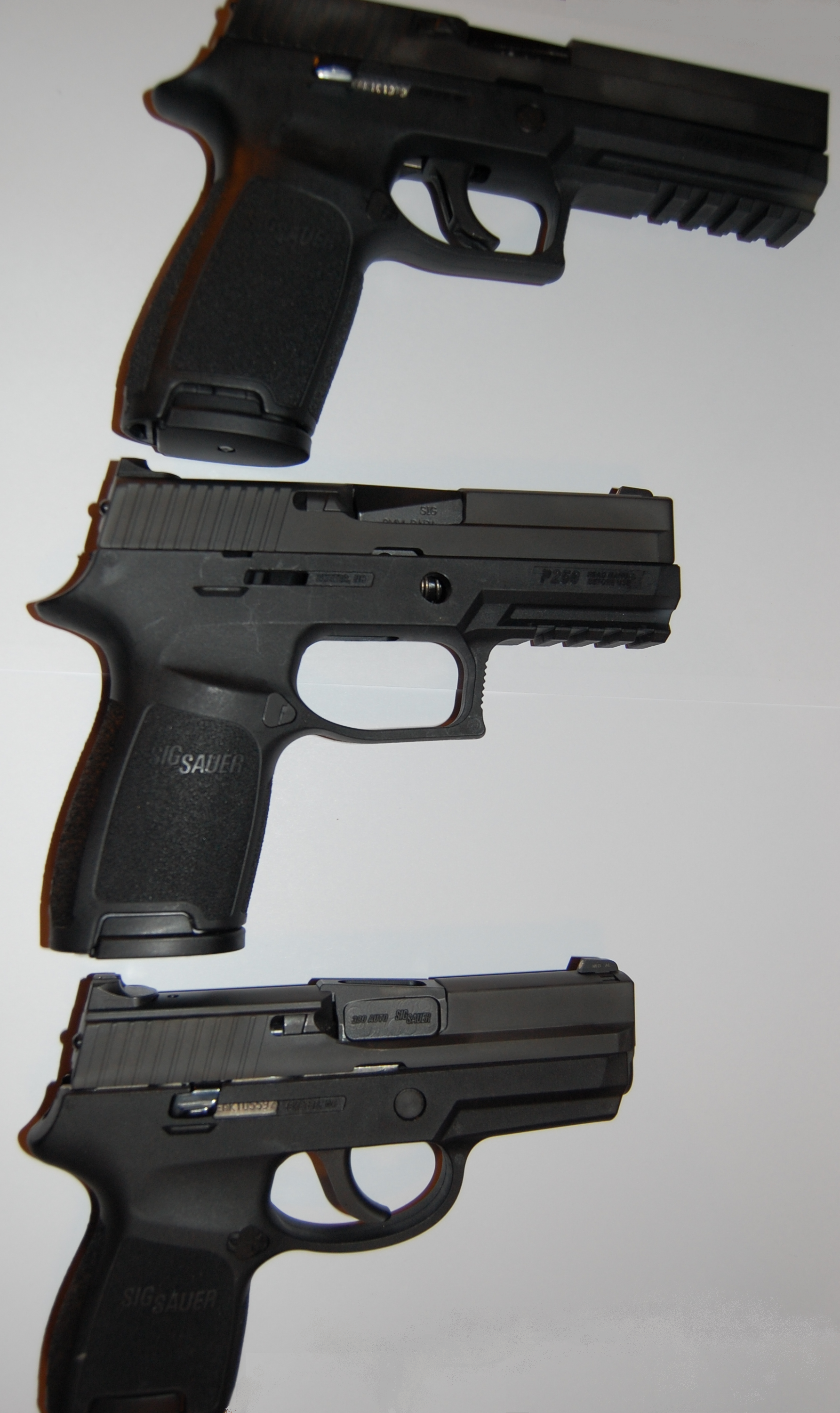 Comparison view of the Full Size (top), Compact (middle) and Sub-Compact (bottom) SIG P250